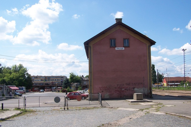 Prijedor Railway and Bus Station